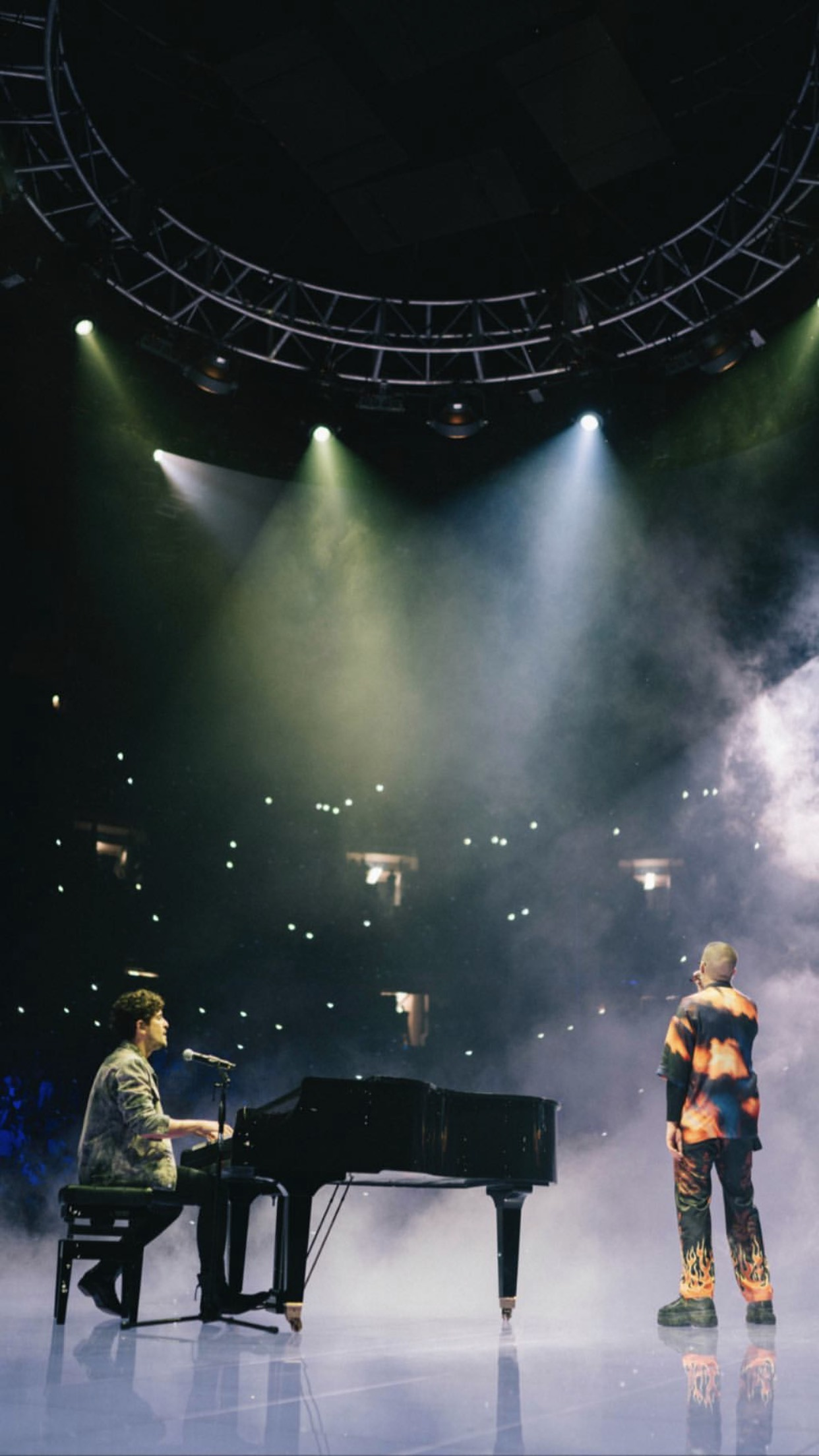 Bad Bunny Bad Bunny and Tommy Torres- Amorfoda- March 9 2019